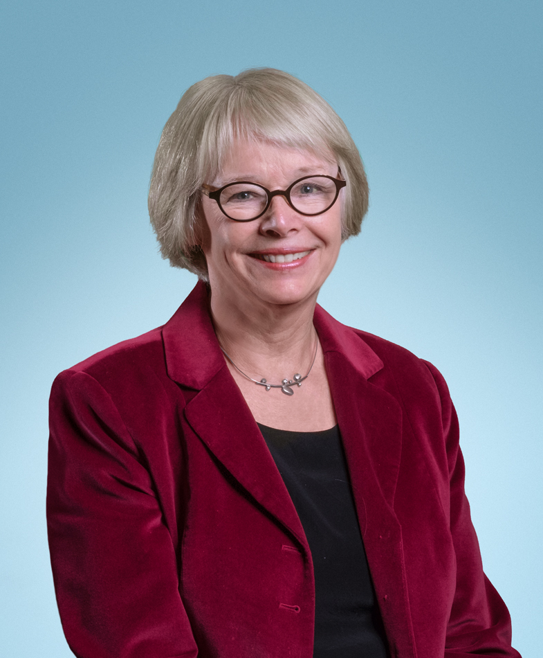 Portrait of Seattle City councilmember Sally Bagshaw